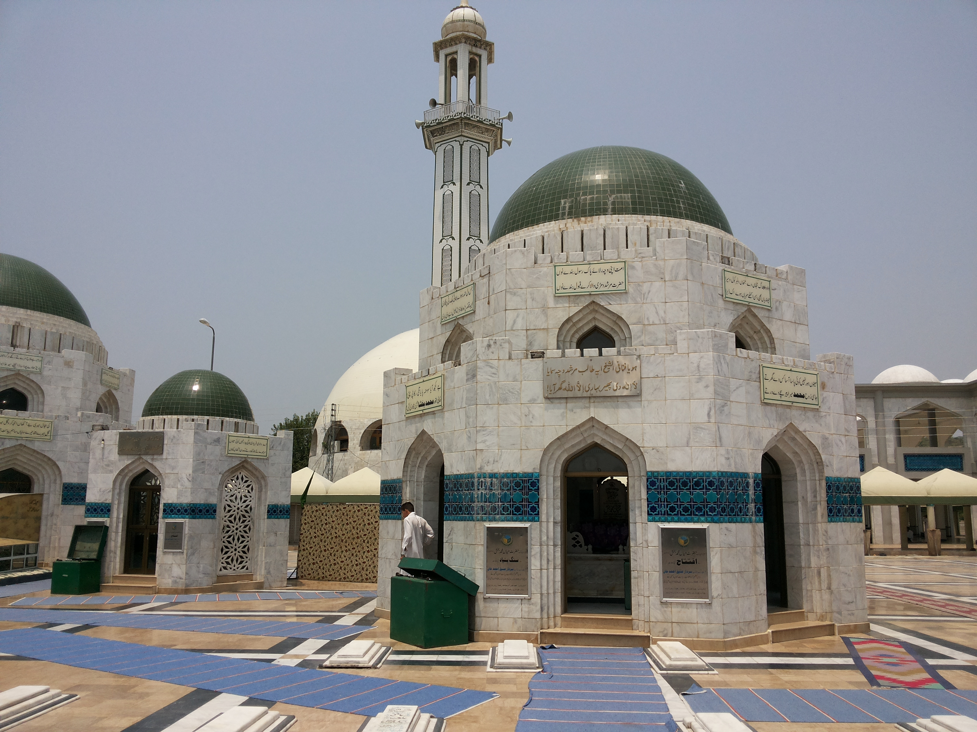 Shrines of Khari Shareef This is a photo of a monument in Pakistan identified as the AJK-14